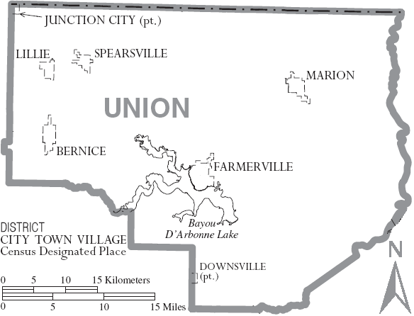 Map of Union Parish, Louisiana, United States with municipal boundaries